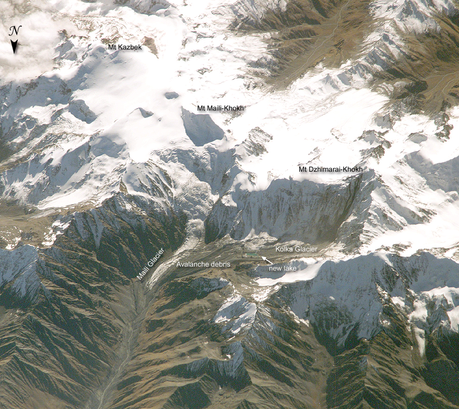 Aftermath of the September 20, 2002 surge of the Kolka Glacier.